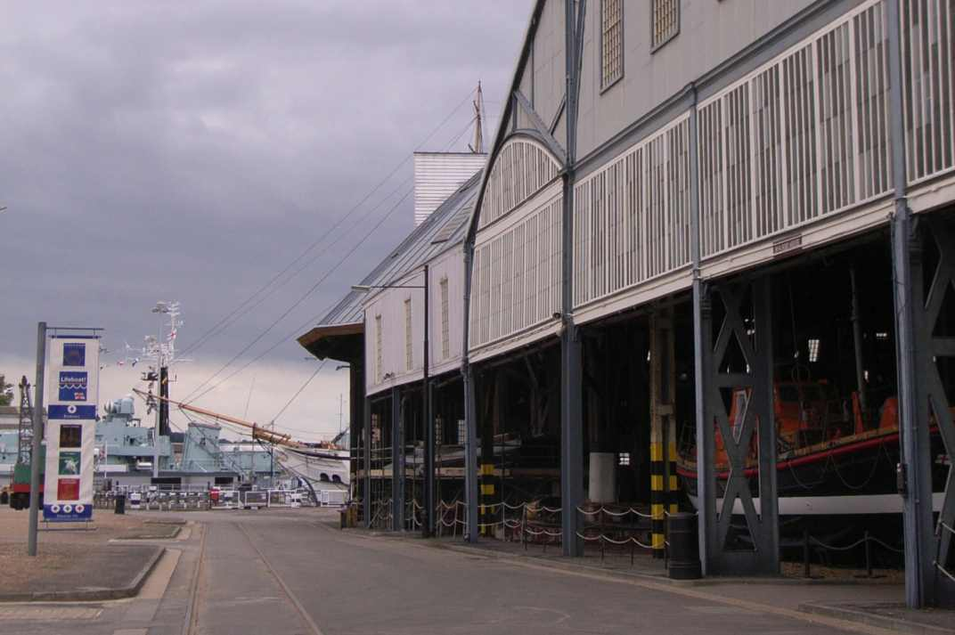 Covered slips at Historic Dockyards of Chatham, Kent - Google Maps - Google Earth